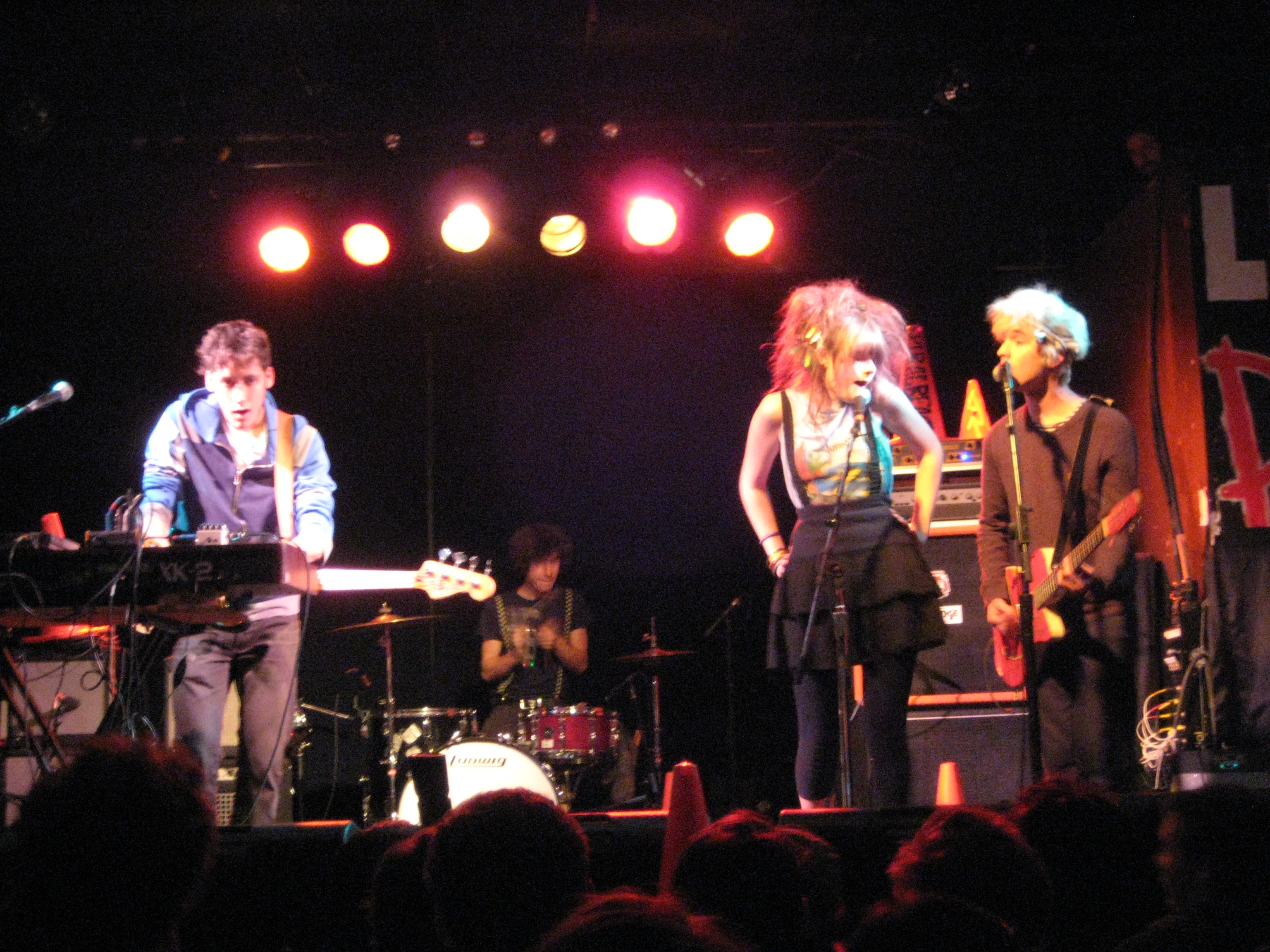 Canadian band Spiral Beach performing at Lee's Palace in Toronto